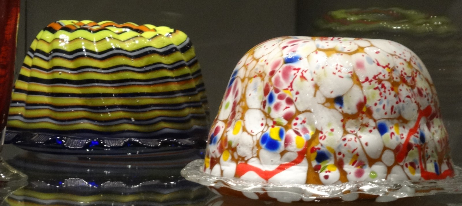 Miluše Roubíčková (* 1922), Czech glass artist: glass objects from the series "marble cakes", at the exhibition "Glass and why not II", Czech Republic, Prague (2012 / 2013), Museum Kampa - The Jan and Meda Mládek foundation